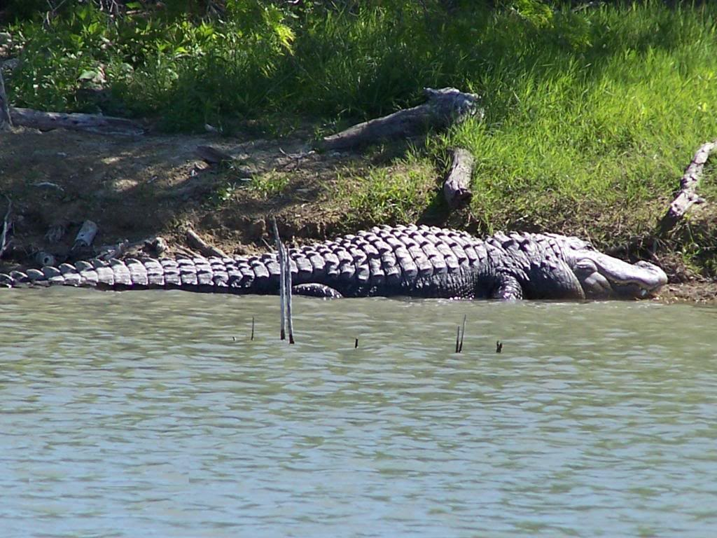 Alligator Found At Choke Canyon State Park